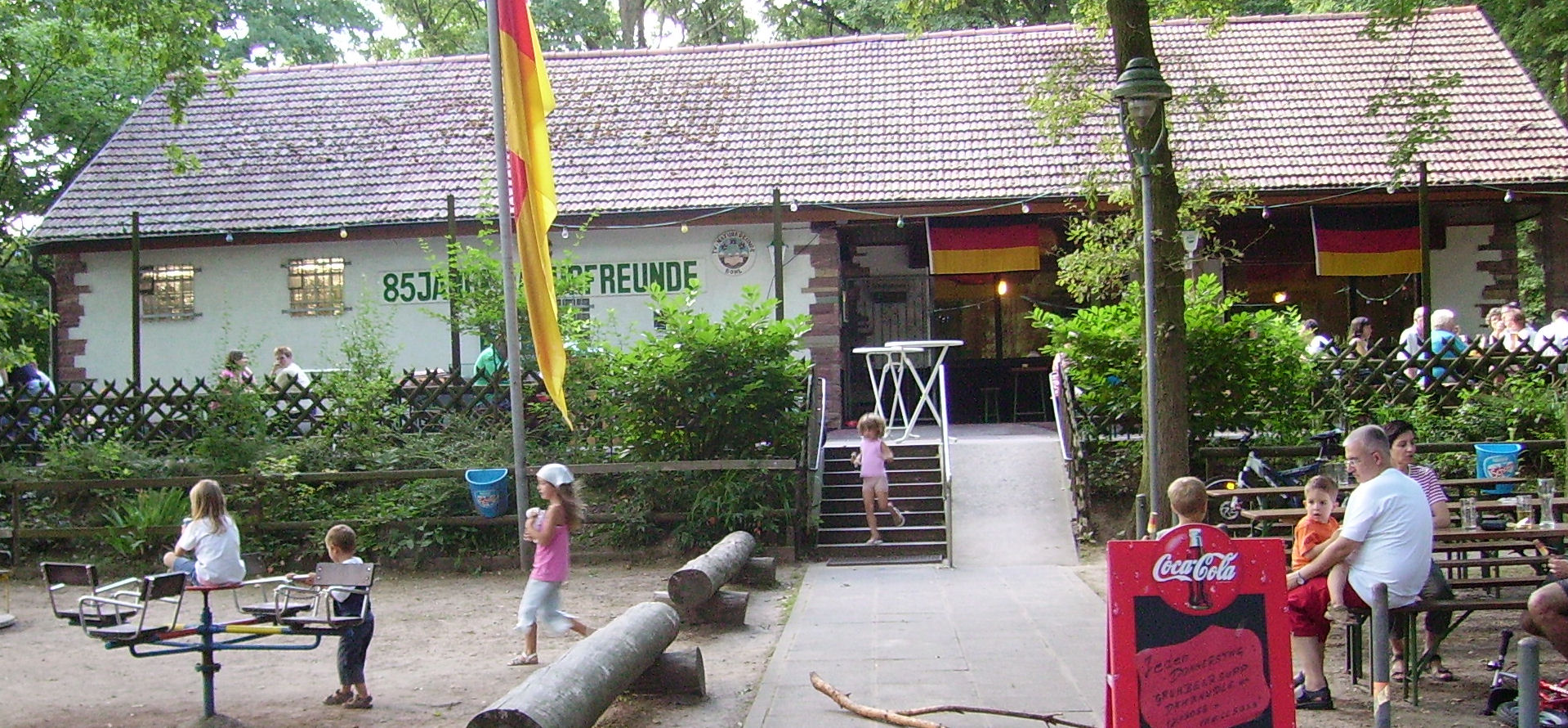 Böhl-Iggelheim, Germany